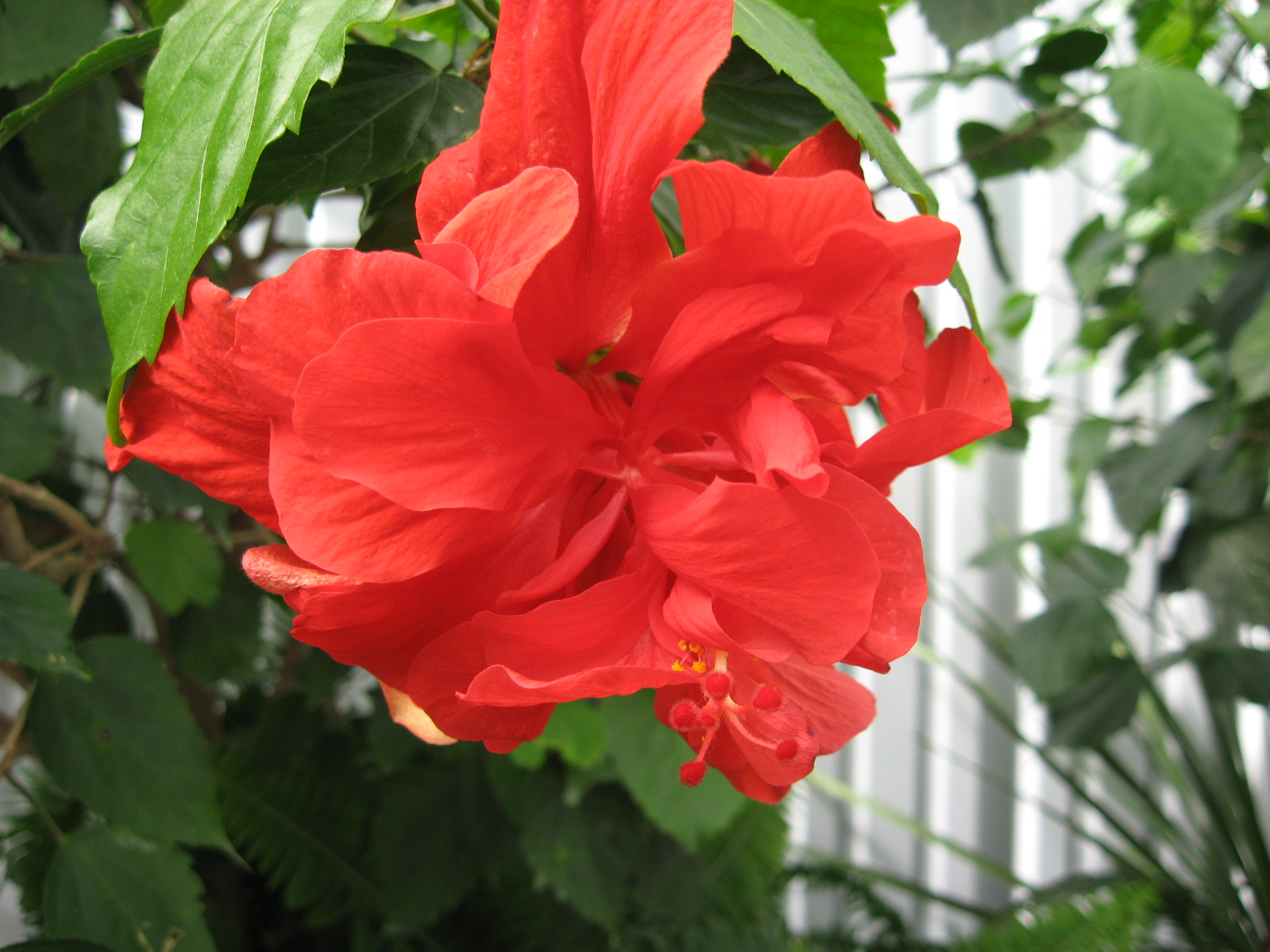 Self Taken Hibiscus Rosa-sinesis double flowered cultivar